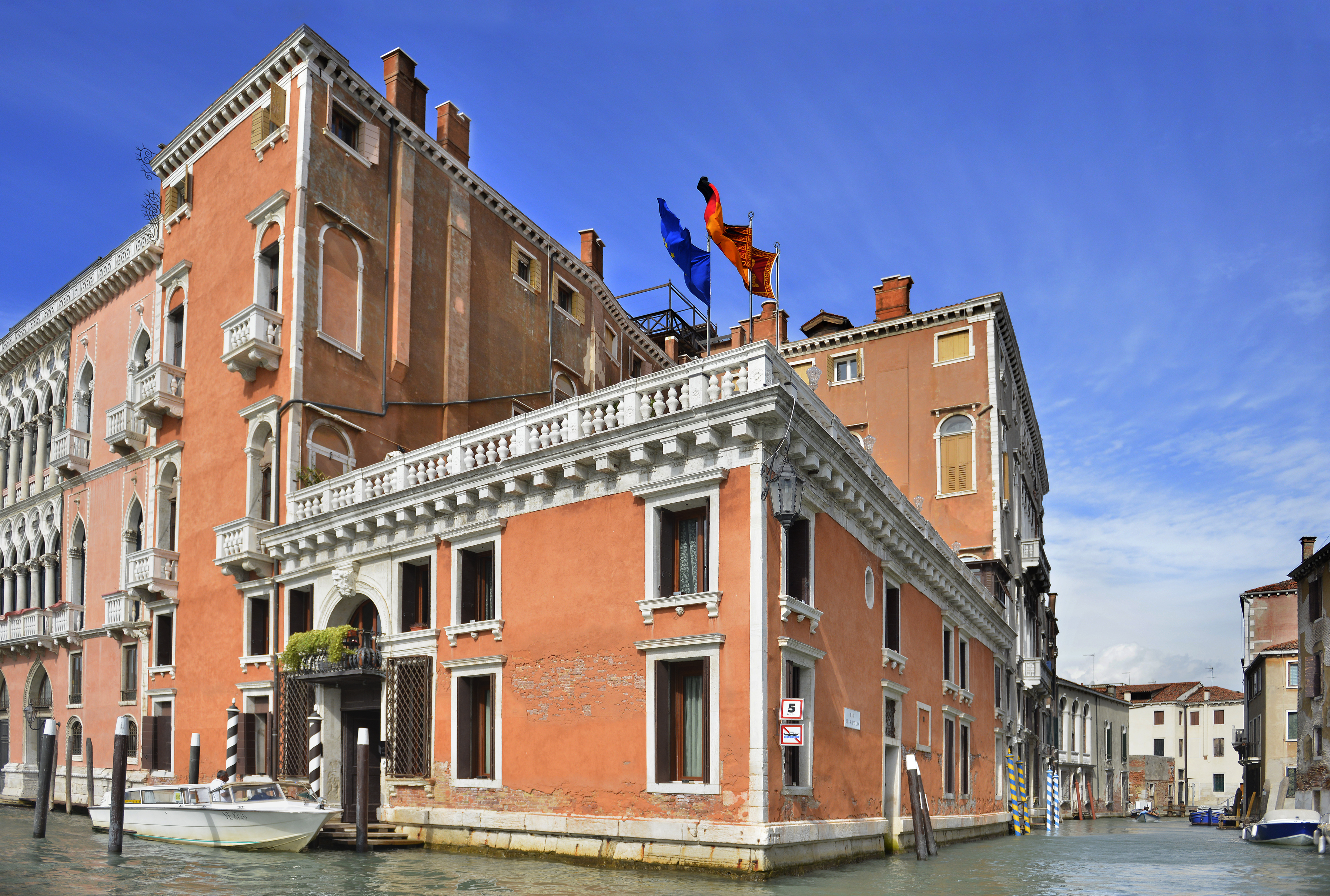 View from Canale Grande at Palazzo Barbarigo della Terrazza, Venice, Italy